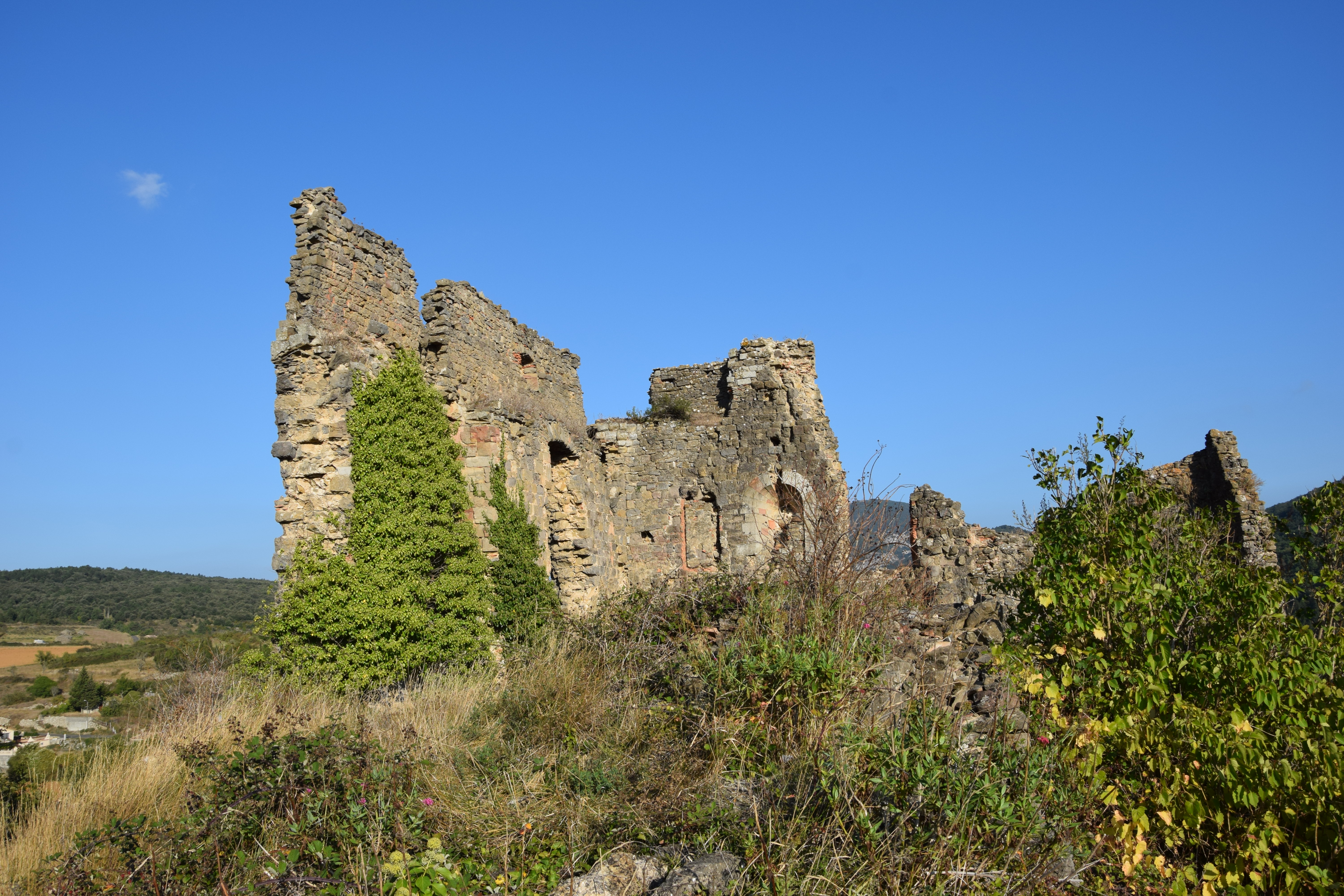 Castle of Coustaussa